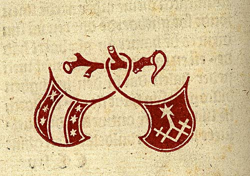 Printer's mark (in red) of Gerard Leeu. Jacobus de Voragine. Passionael, Winterstuc. Gouda, Gerard Leeu, 31 July 1478. IDL 2581. Shelfnumber 170 E 17(I), f. aa7v.